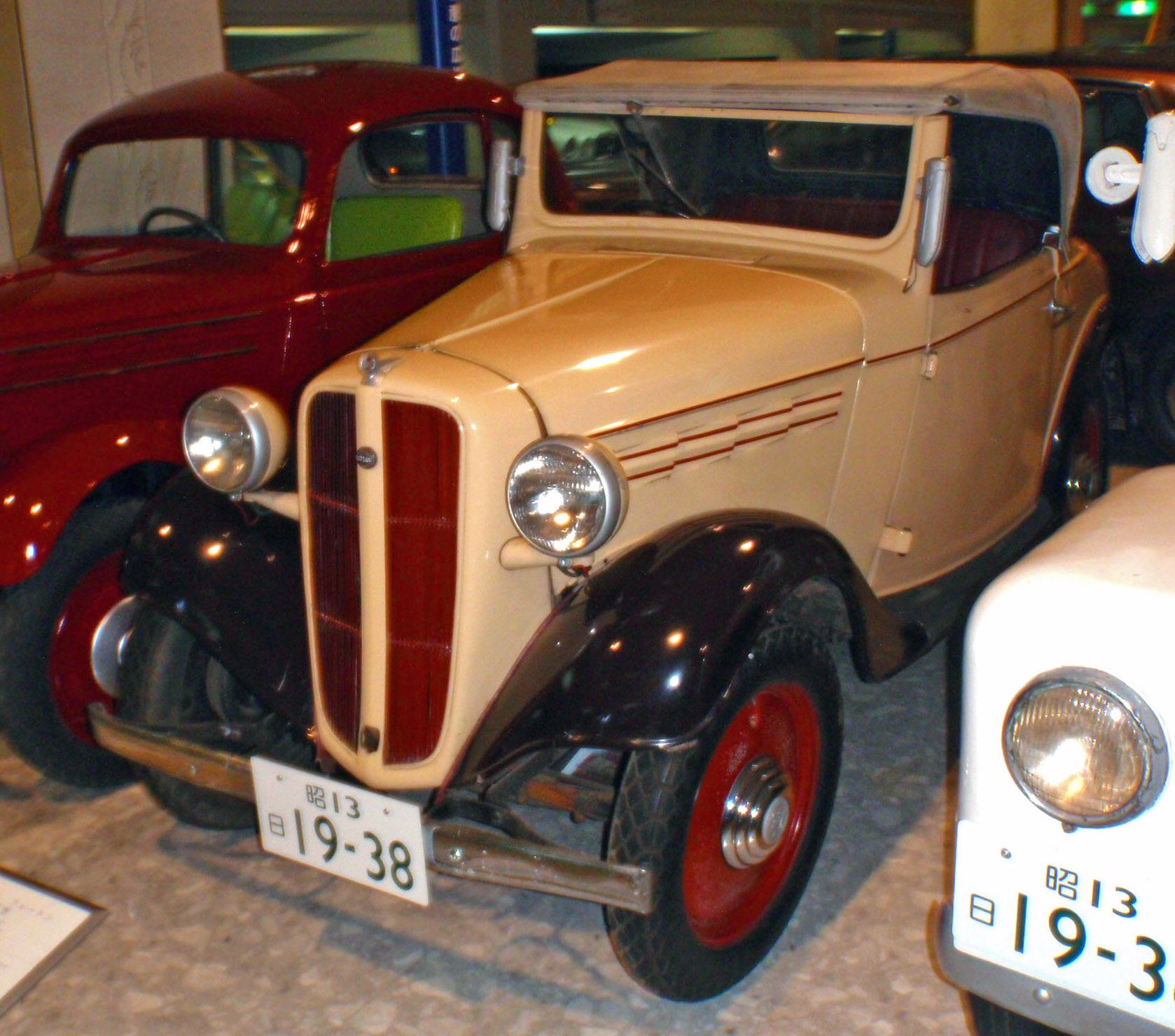 1938 Datsun Model 17 roadster at the Motorcar Museum of Japan